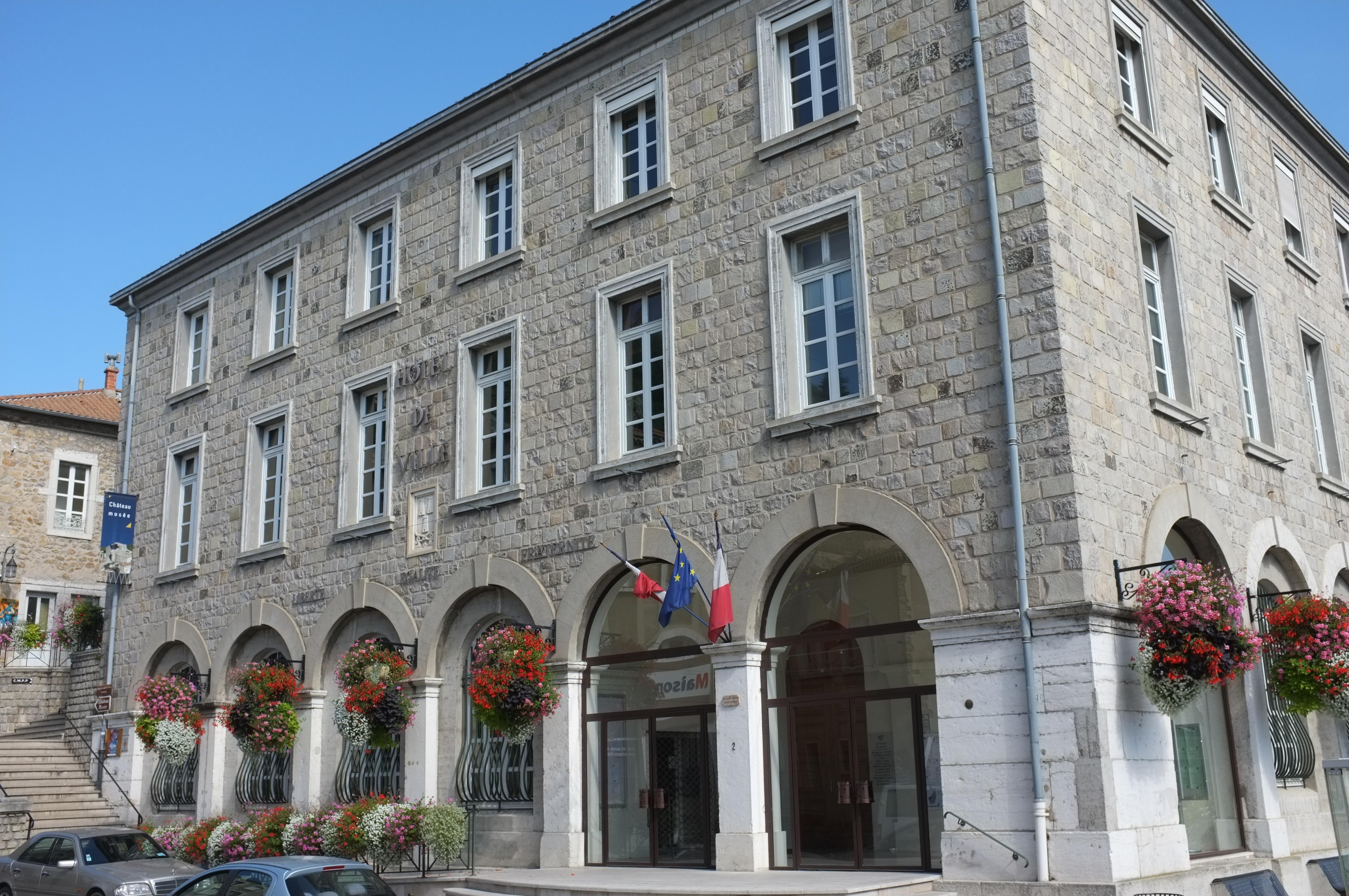 Town hall of Tournon-sur-Rhône - Ardèche - France